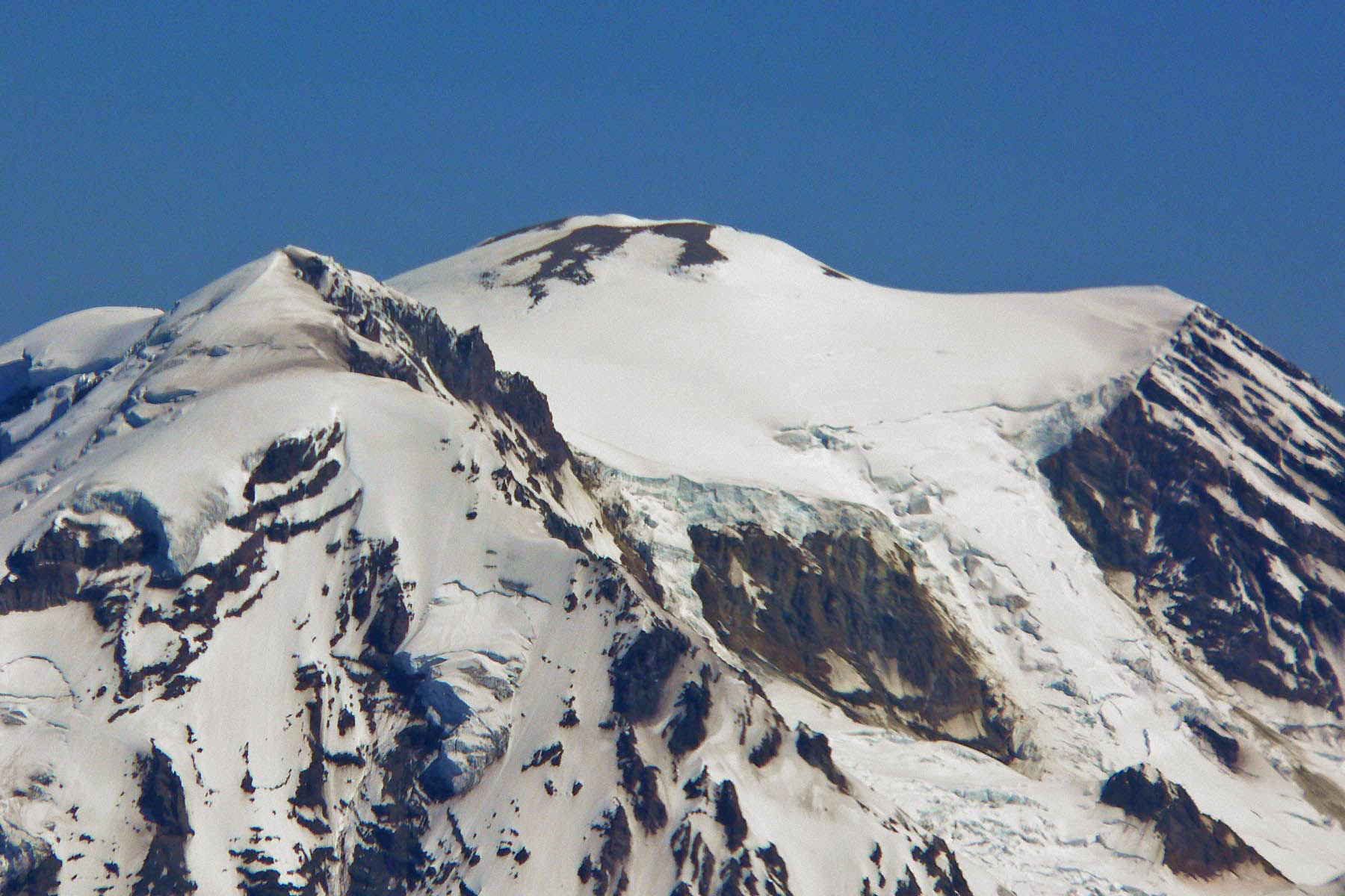 Aerial closeup photo of Mount Rainier summit area, taken July 2005 by User:Stan Shebs From left to right, the high points are Liberty Cap, Columbia Crest (the summit proper), and Point Success. Tahoma Glacier descends to the lower right past St. Andrews Rock.